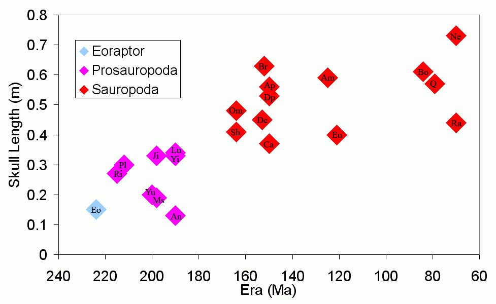 Sauropodomorpha Skull Length. Eo Eoraptor, Ri Riojasaurus, Pl Plateosaurus, Yu Yunnanosaurus, Ms Massospondylus, Ji Jingshanosaurus, An Anchisaurus, Lu Lufengosaurus, Yi Yiminosaurus, Sh Shunosaurus, Om Omeisaurus, Dc Dicraeosaurus, Br Brachiosaurus, Eu Euhelops, Ap Apatosaurus, Ca Camarasaurus, Dp Diplodocus, Am Amargasaurus, Bo Bonitosaurus, Q Quaesitosaurus, Ra Rapetosaurus, Ne Nemegtosaurus